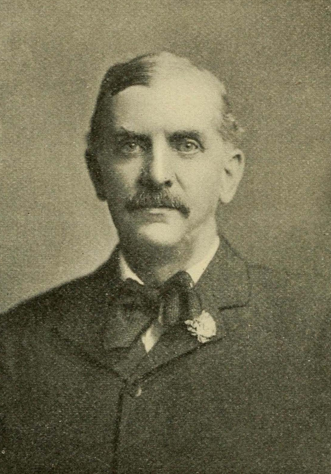 Samuel "Golden Rule" Jones